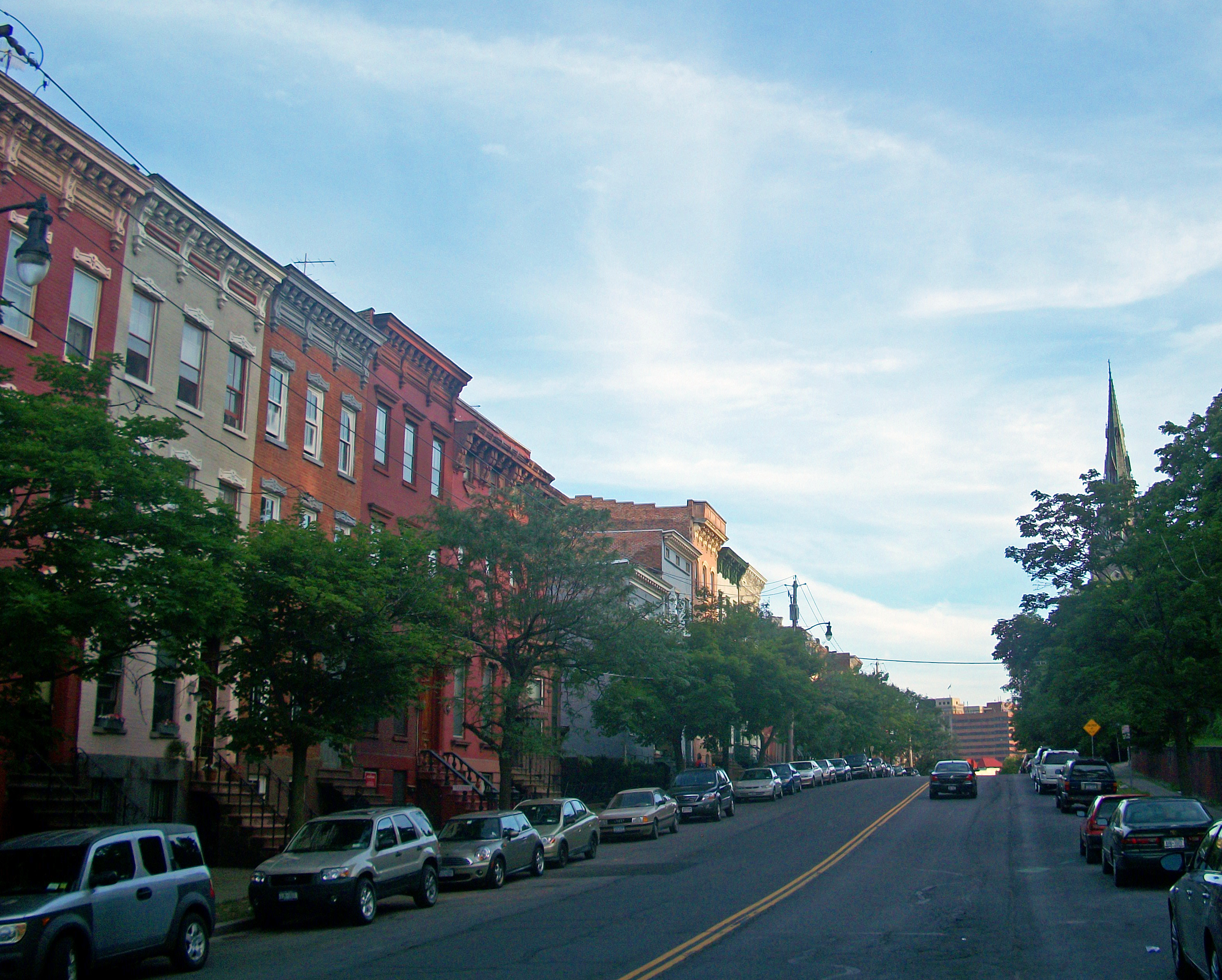 View of rowhouses along Ten Broeck Street, Albany, NY, USA, in the Ten Broeck Triangle, from in front of the Ten Broeck Mansion